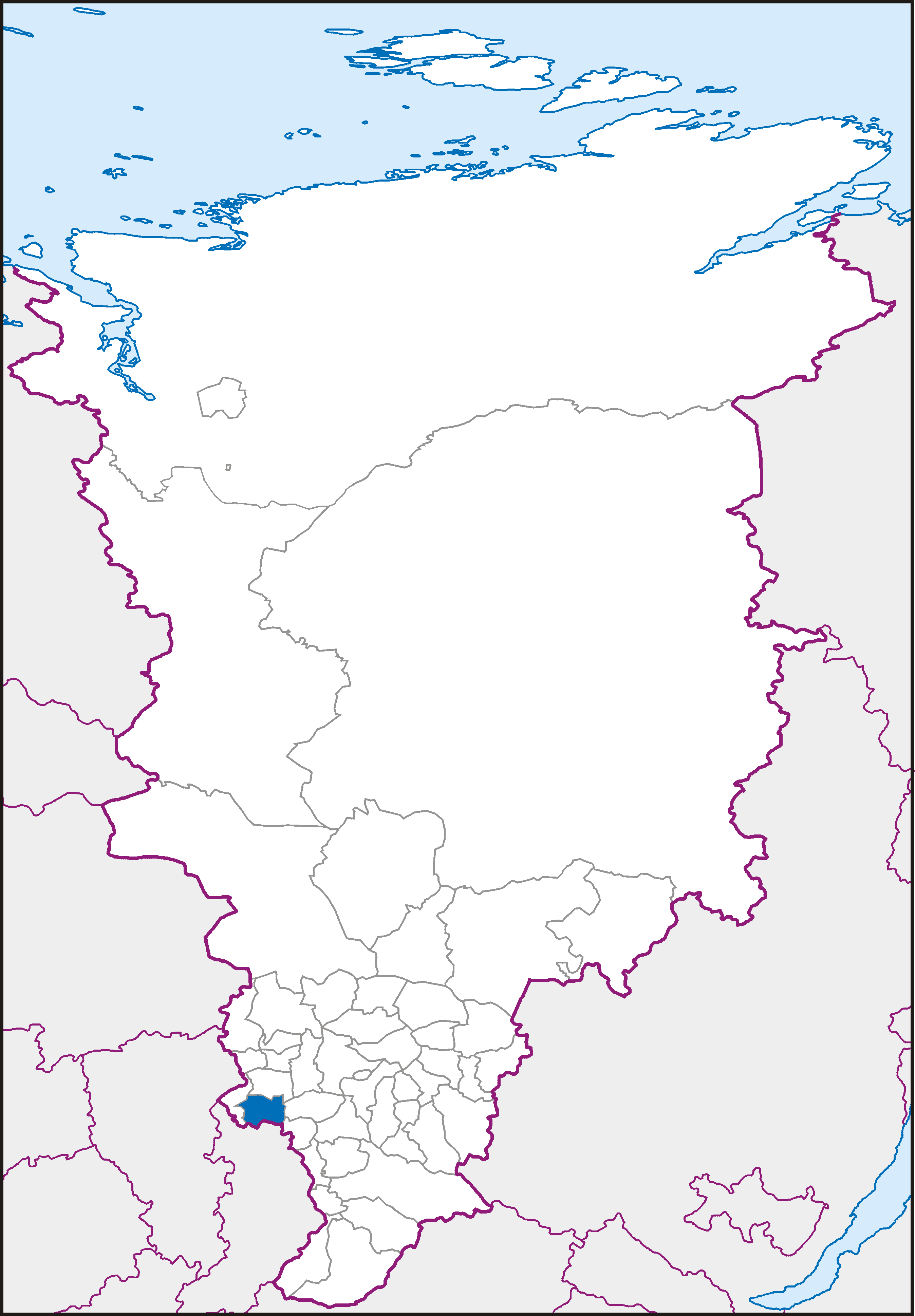 Map of Krasnoyarsk Krai in Albers Equal-Area Conic projection (Central Meridian = 95° E)